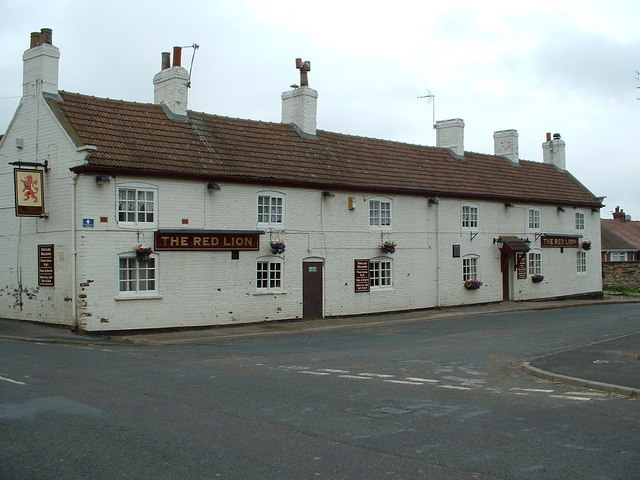 The Red Lion This is the Red Lion pub in Kellington. This is situated on the corner of Ings Lane an Eastfield Lane.